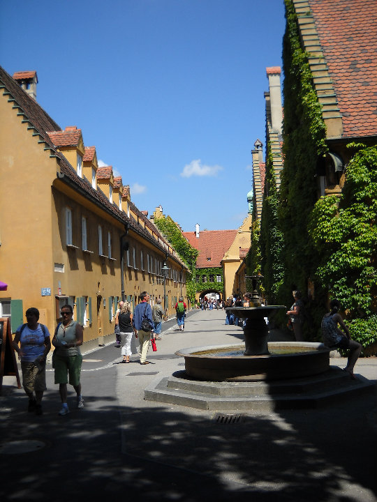 The social housing complex Fuggerei in Augsburg, Bavaria. (August 2009.)